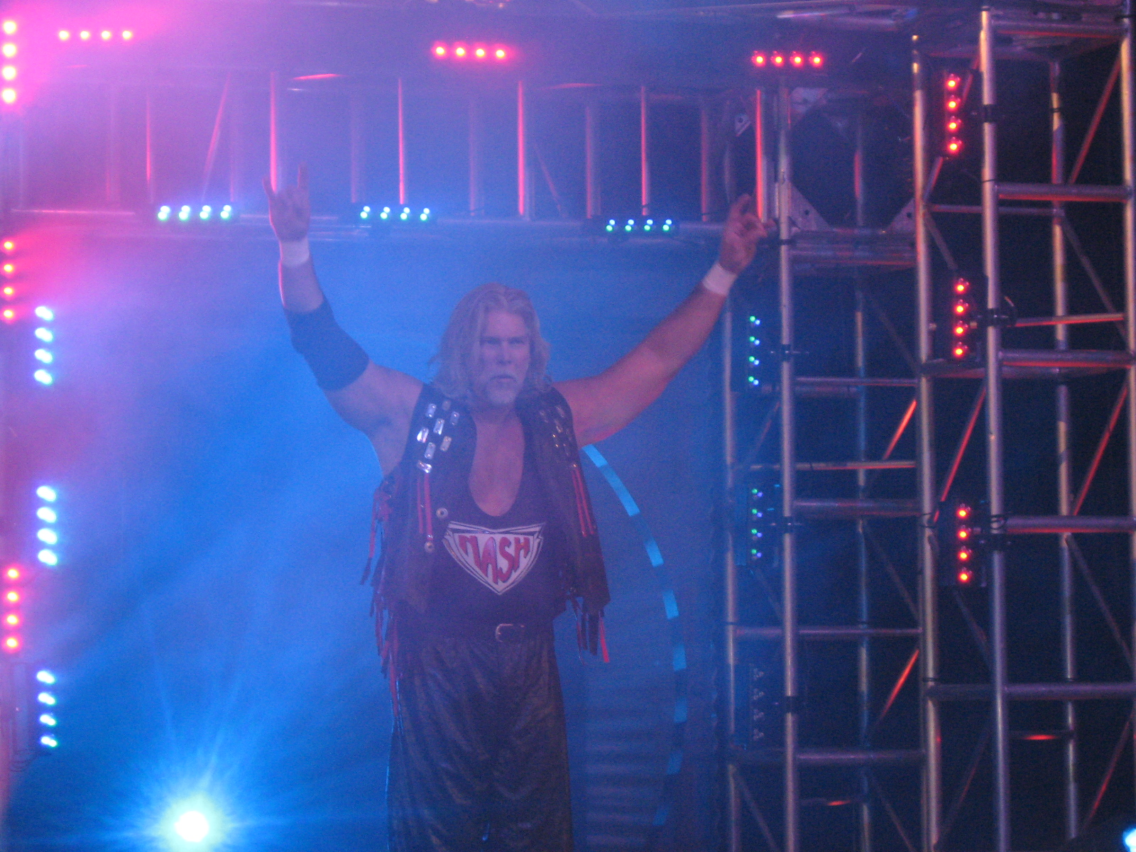 Big Sexy Kevin Nash